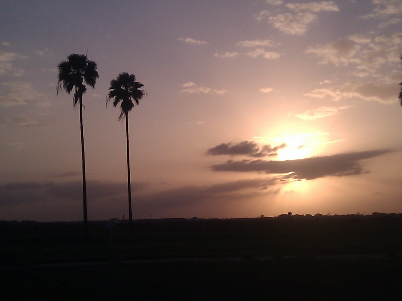 Picture taken by Dave Hale, March 2012